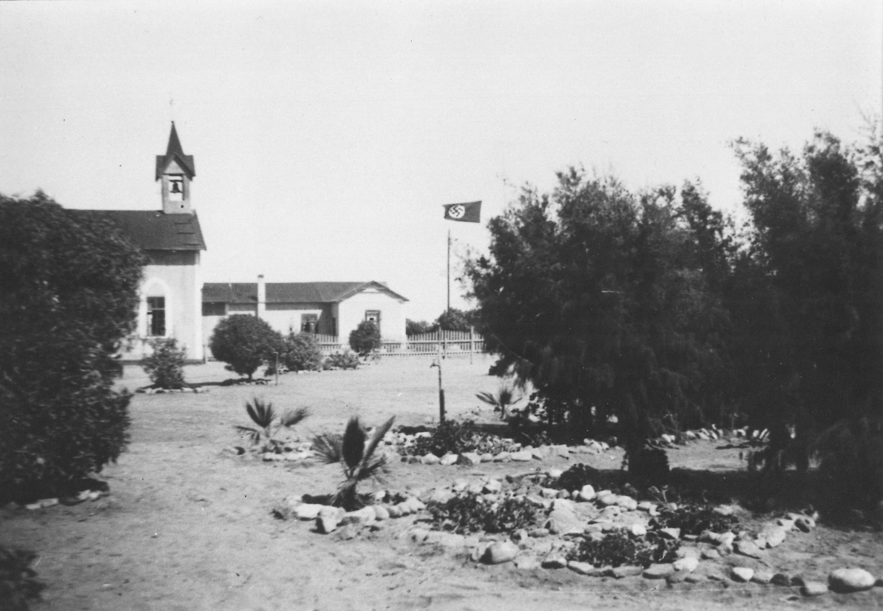 Church and mission building of the Rheinische Missionsgesellschaft, Swakopmund, 1938 with nazi swastika flag.